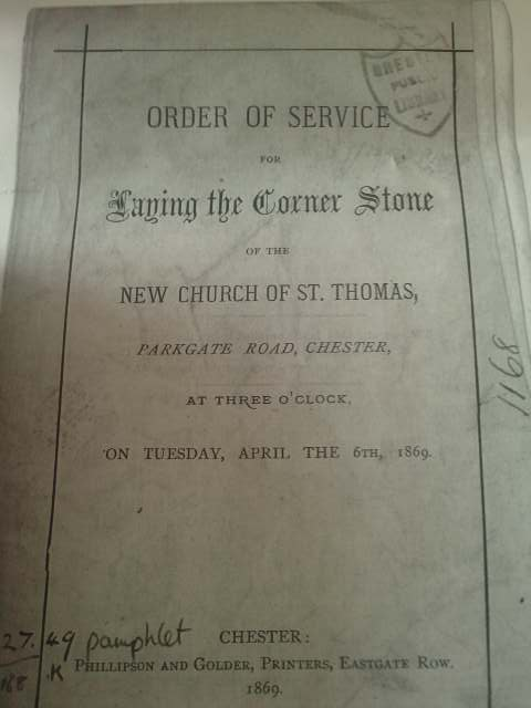 Order of Service for laying of the foundation stone of the parish church of St Thomas of Canterbury, Chester, England